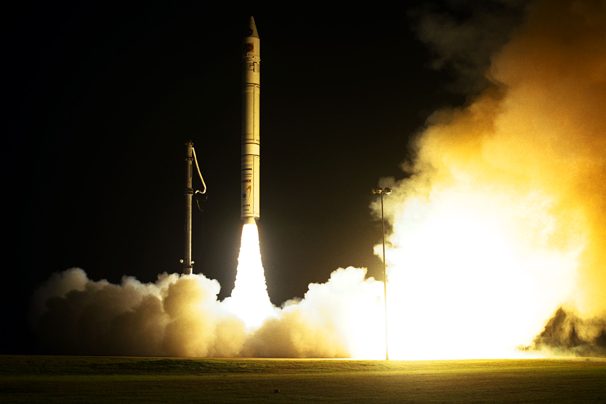 Athena-2 (LMLV-2 or LLV-2) rocket with Lunar Prospector